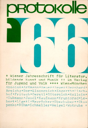 Book cover of Redaktionsarchiv "protokolle" gegr. 1966